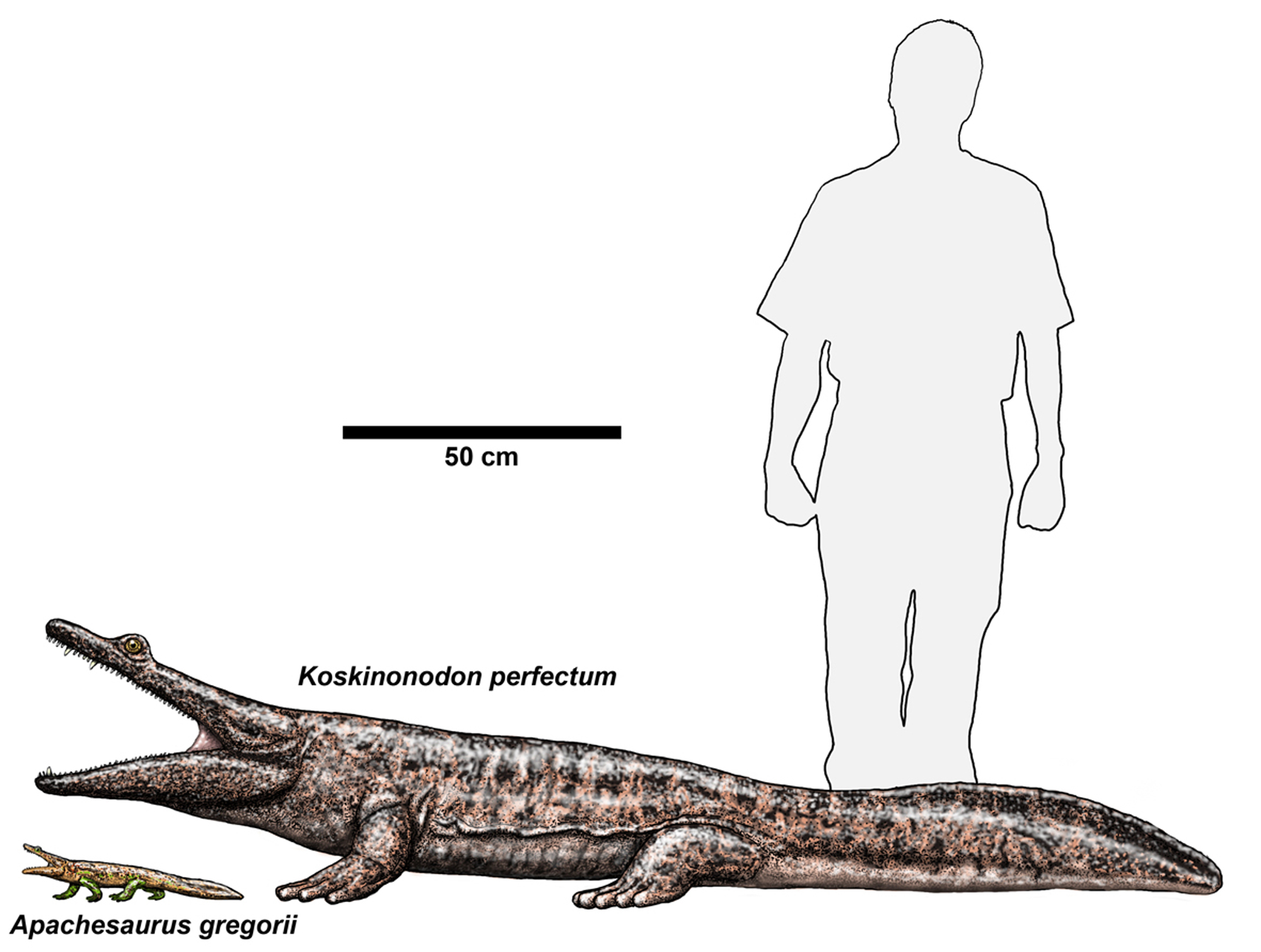 Koskinonodon perfectum and Apachesaurus gregorii compared to a human.